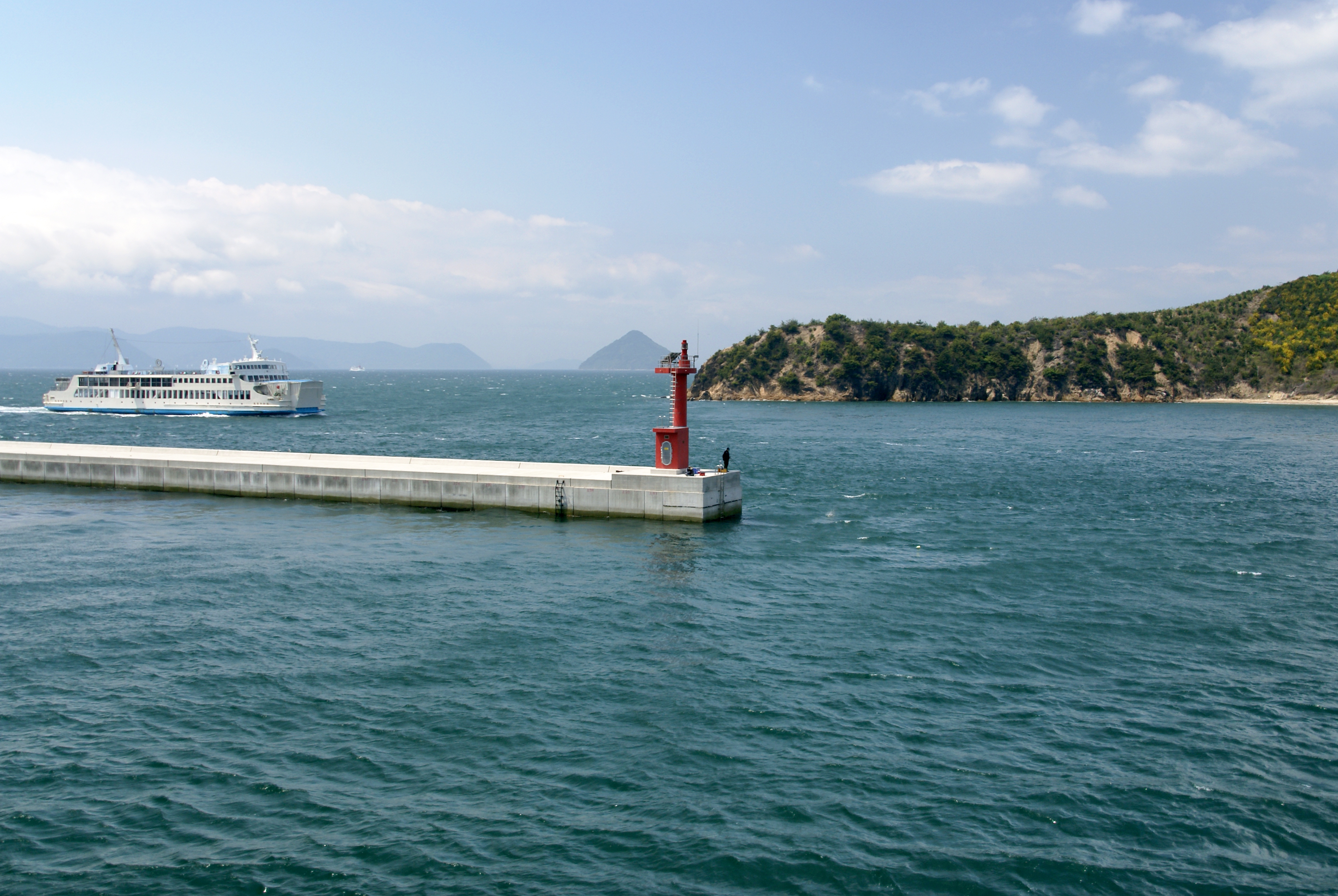 Miyanoura port in Naoshima, Kagawa prefecture, Japan